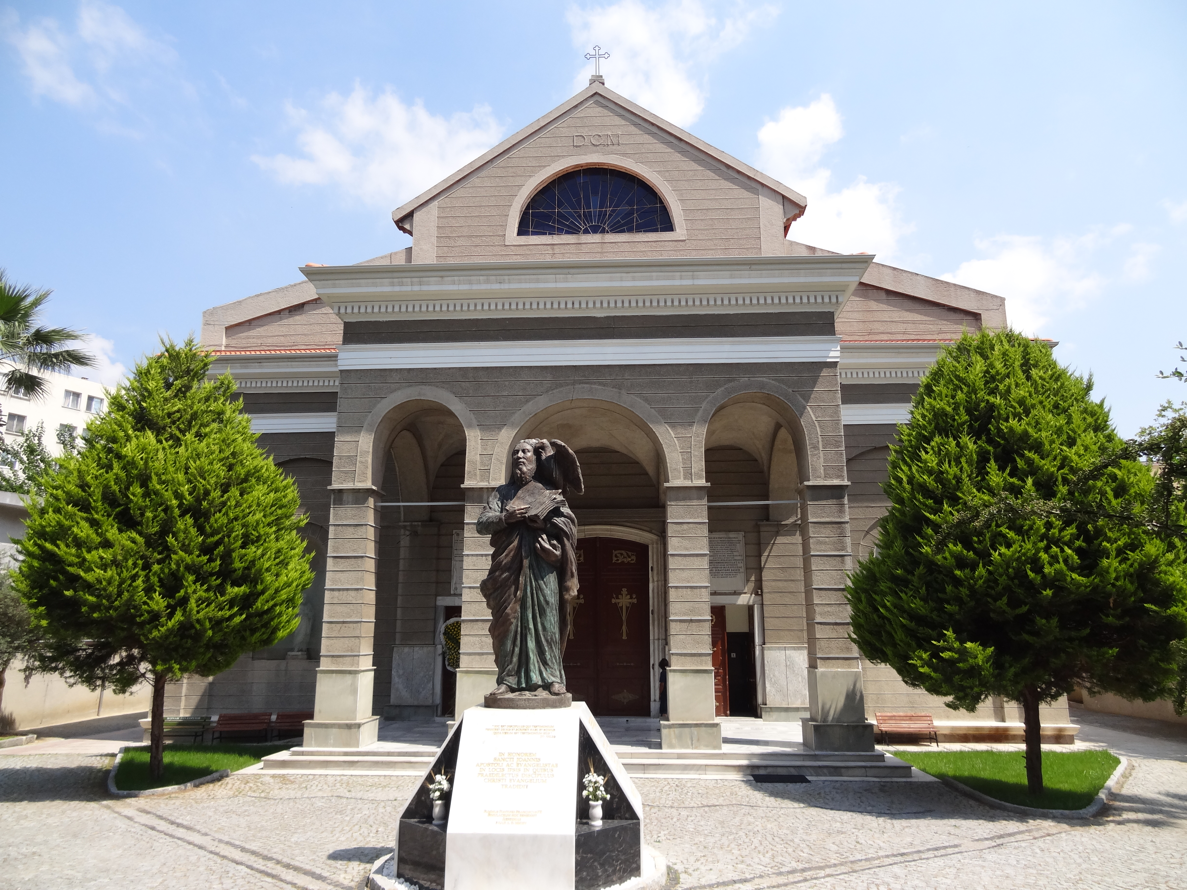 St. John's Cathedral (Roman Catholic), Izmir, Turkey